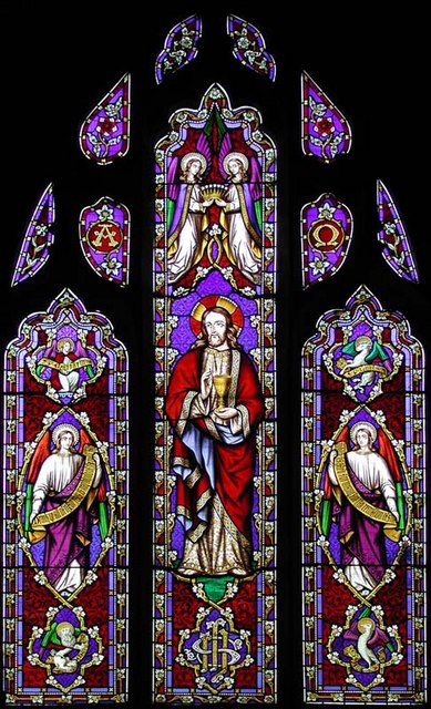 Chancel east window of the parish church of St Martin, Sandford St Martin, Oxfordshire